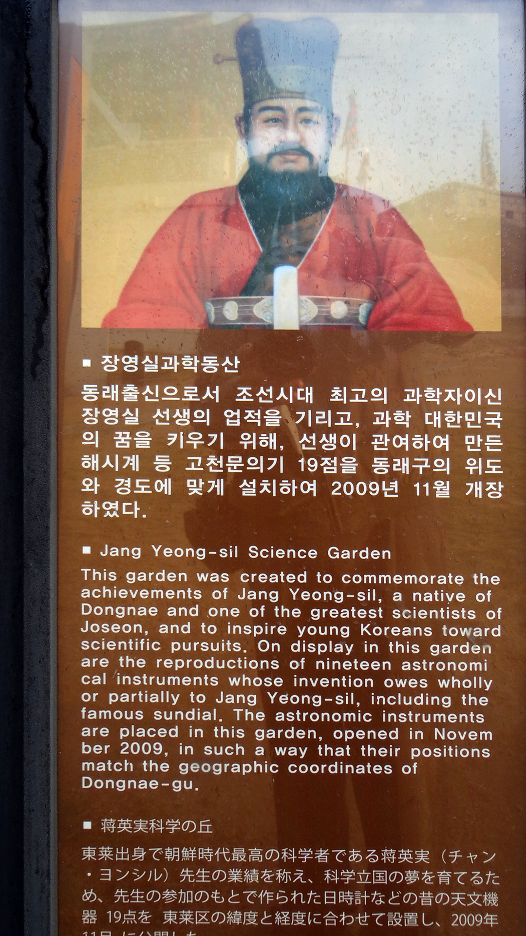 Jang Yeong-sil Science Garden in Busan commemorates the achievements of one of the greatest scientists of Joseon. Jang is credited with inventing, or collaborating on, 19 Joseon Era scientific instruments.